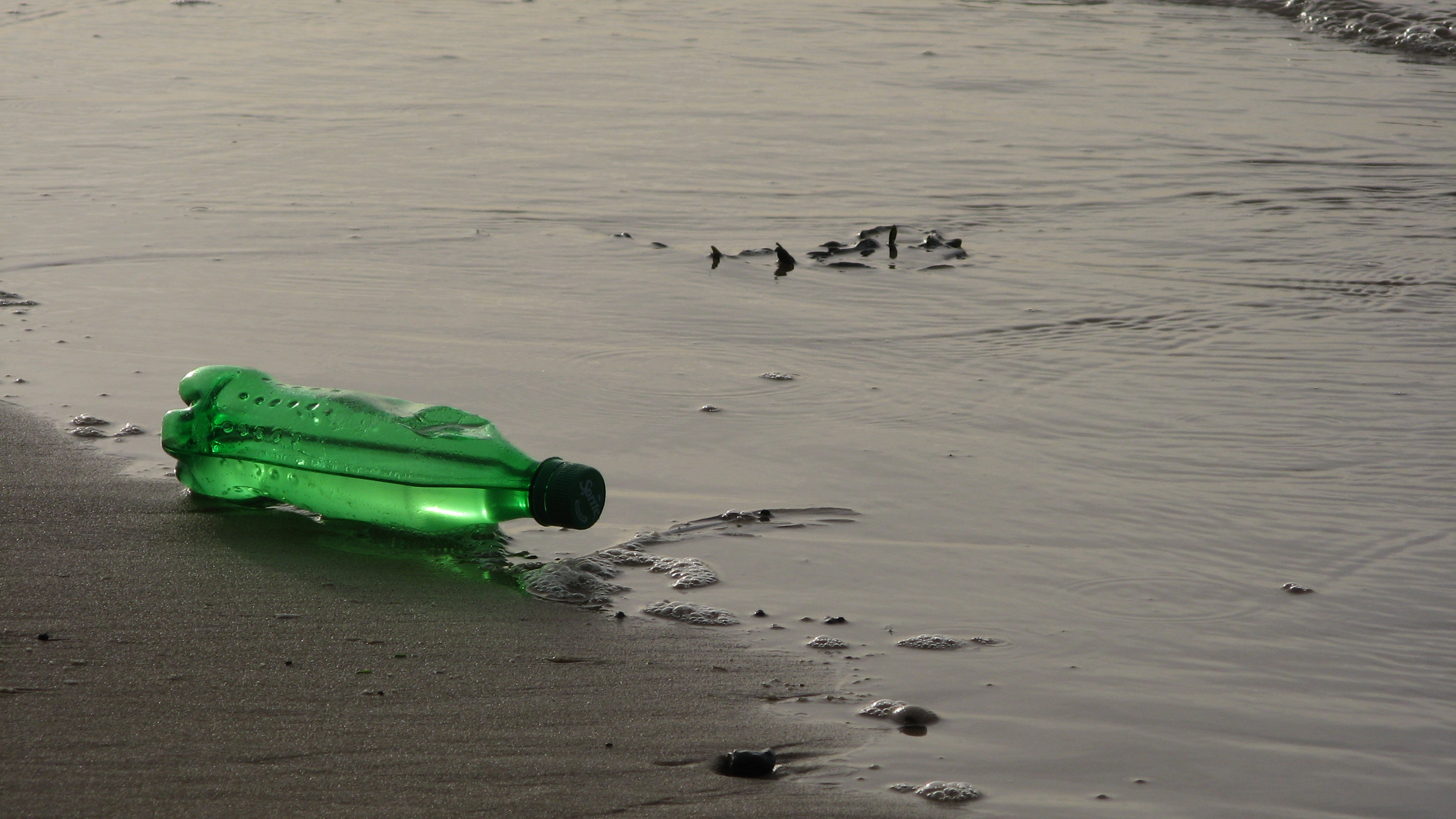 Bottle of Sprite given up on a beach of Pas-de-Calais. Not respect of the environment. Pollution. Antisocial behaviour.